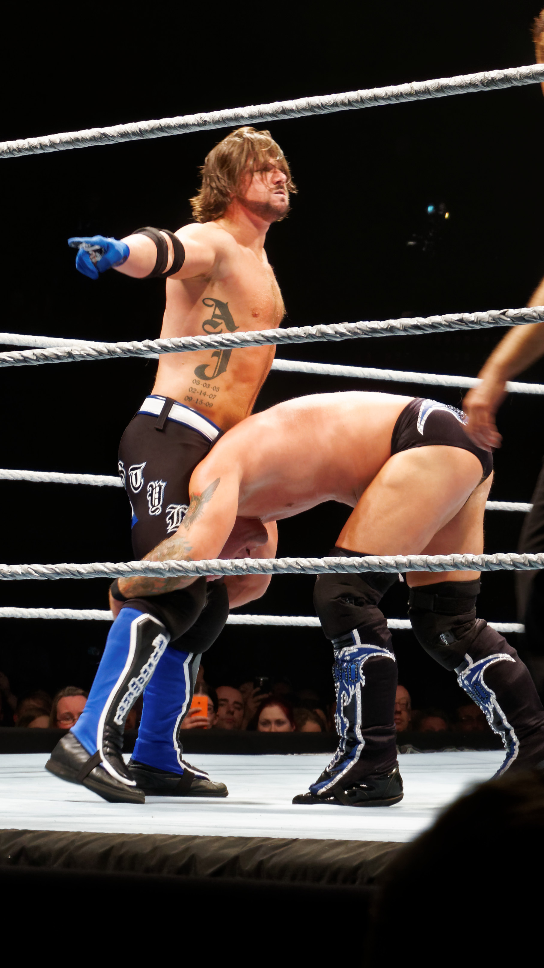 WWE Live WrestleMania Revenge AJ Styles def. Chris Jericho